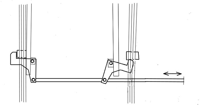 hook-shaped locking of the switch blades